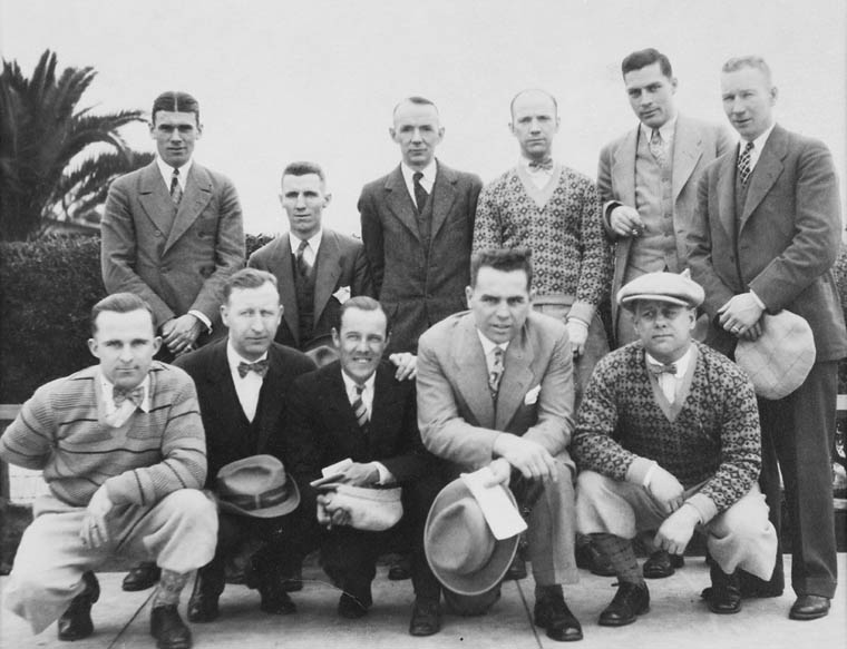 Photo of New York Americans ice hockey team trip to Tijuana, Mexico, 1926. Manager Tommy Gorman is second from left, front row. This Canadian work is in the public domain in Canada because its copyright has expired due to one of the following: 1. it was subject to Crown copyright and was first published more than 50 years ago, or it was not subject to Crown copyright, and 2. it is a photograph that was created prior to January 1, 1949, or 3. the creator died more than 50 years ago.